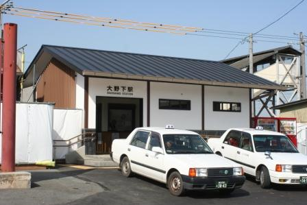 Onoshimo Station on Kagoshima Main Line, new building